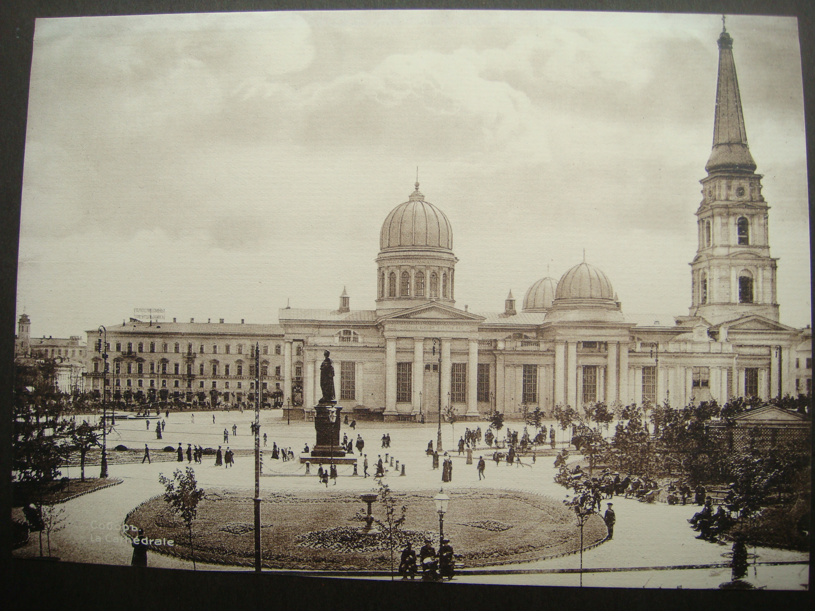 This is photo view of Odessa from Souvenir Photo Album published in Odessa circa early XX century.